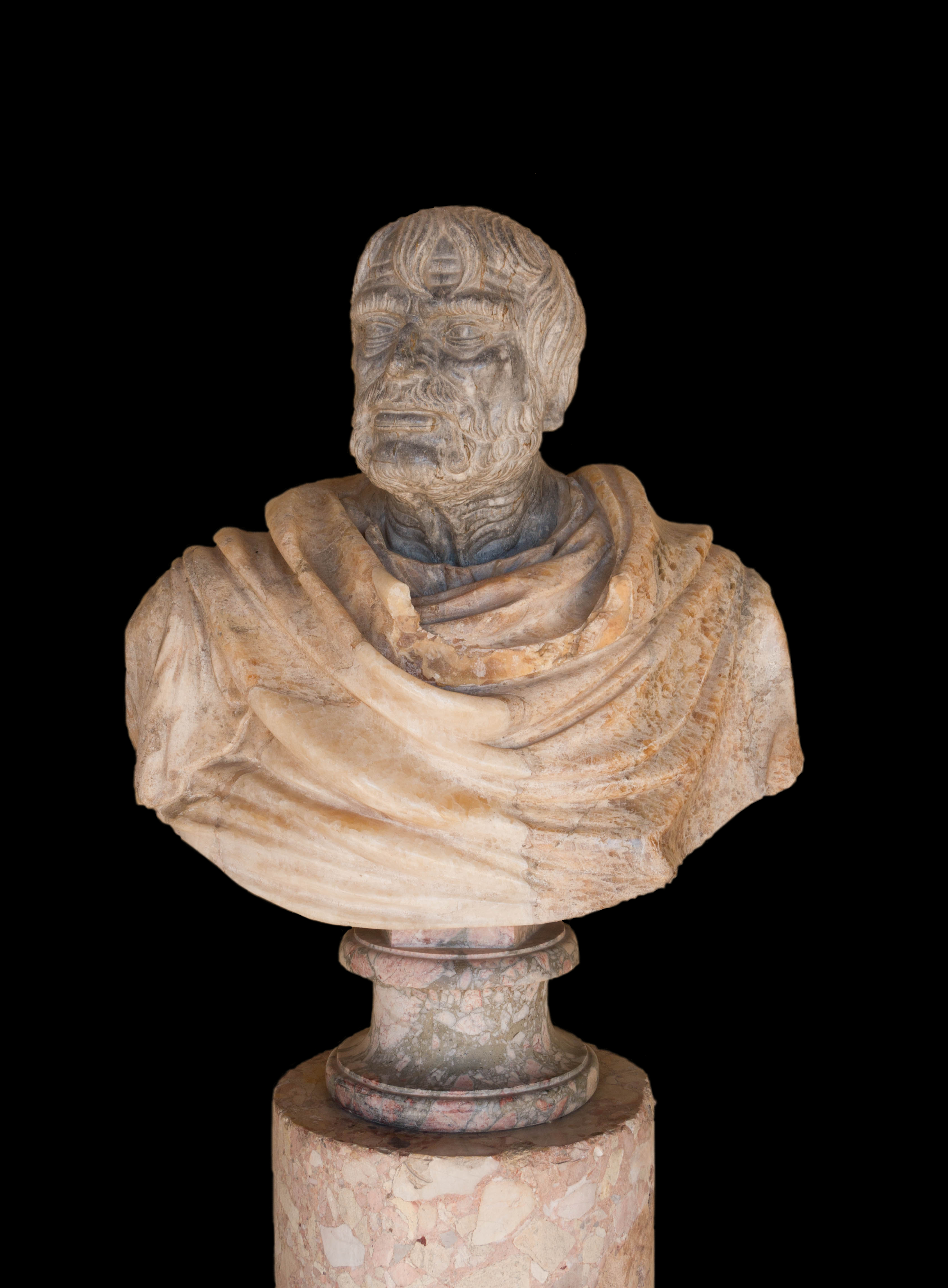 Bust of Seneca (Lucius Annaeus Seneca), marble, Italy, 18th-century. Château de Hautefort, Dordogne, France.